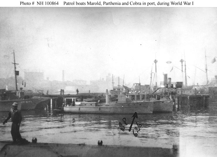 In a New England port during World War I, the United States Navy patrol vessel is at center with an unidentified patrol boat tied up inboard of her. The bows of the patrol boats and are visible at left, tied up alongside each other, with Parthenia inboard. In the foreground is the submarine USS L-10 (Submarine No. 50).